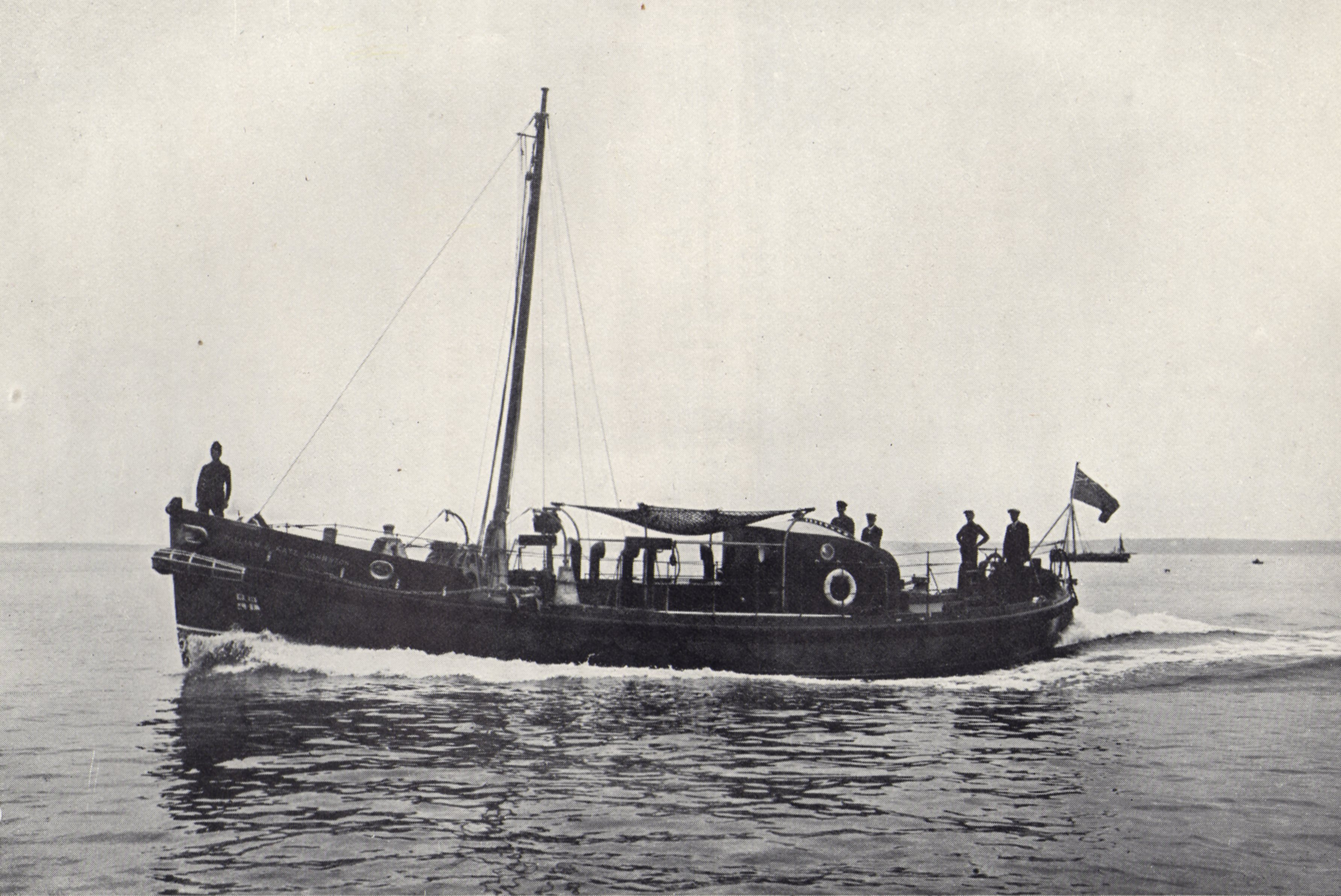 Postcard of the New Brighton motor Lifeboat William and Kate Johnston, scanned and cropped image from personnel postcard collection. there is no Copyright attributions